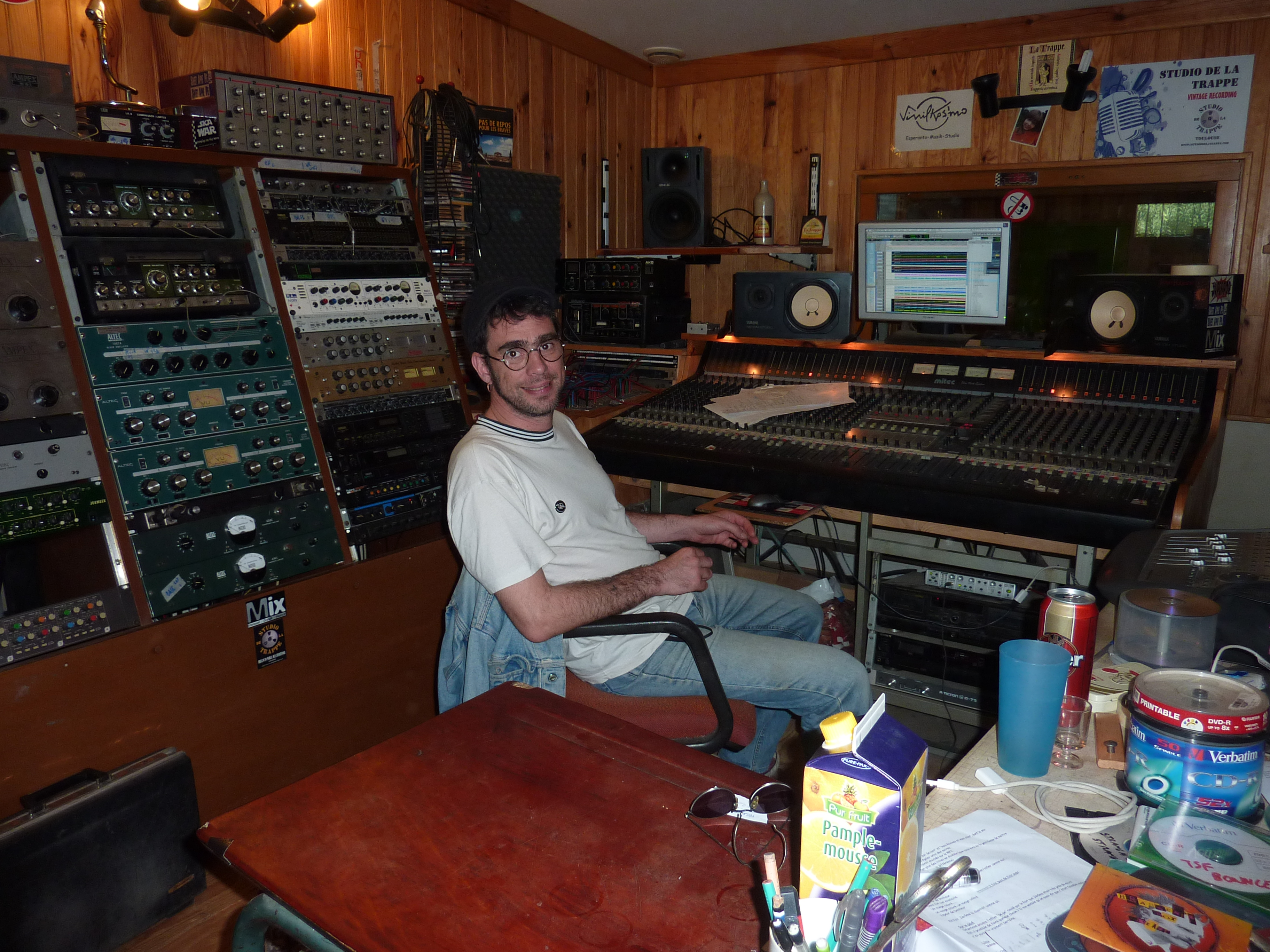 Control room of the recording studio "Studio La Trappe" / Vinilkosmo in Donneville near Toulouse, France.